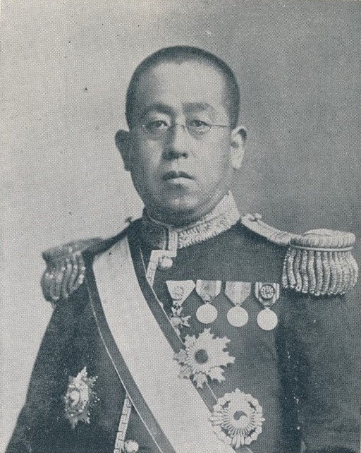 Portrait of Prince Tokugawa Iesato (1863 – 1940)